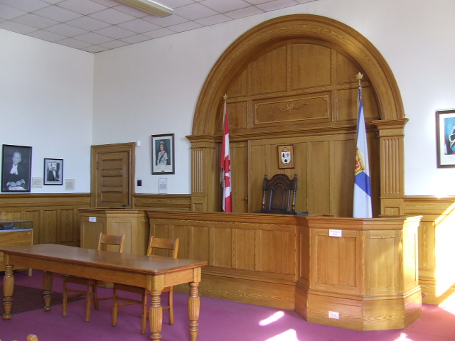 The restored courtroom of the 1903 Kings County Courthouse in Kentville, Nova Scotia Canada, now the Kings County Museum.